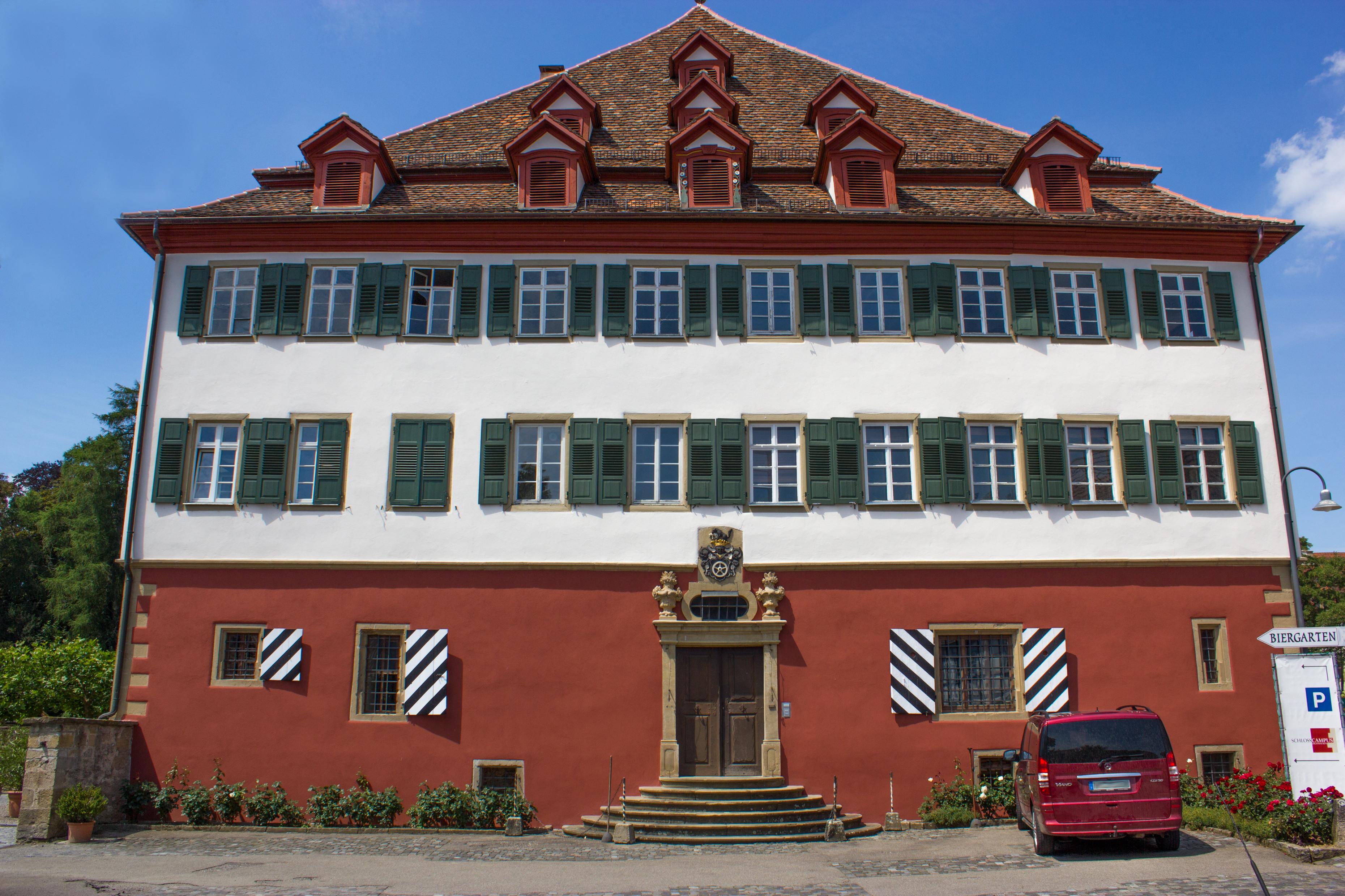 Front view of "Rotes Schloss" in Jagsthausen, year 2015, after the renovation